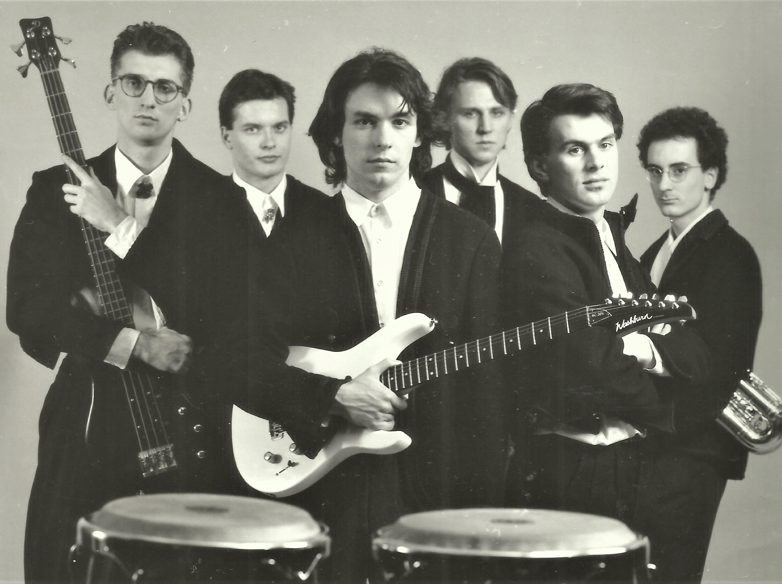 Croatian music group Alter Ego on photo session in Zagreb